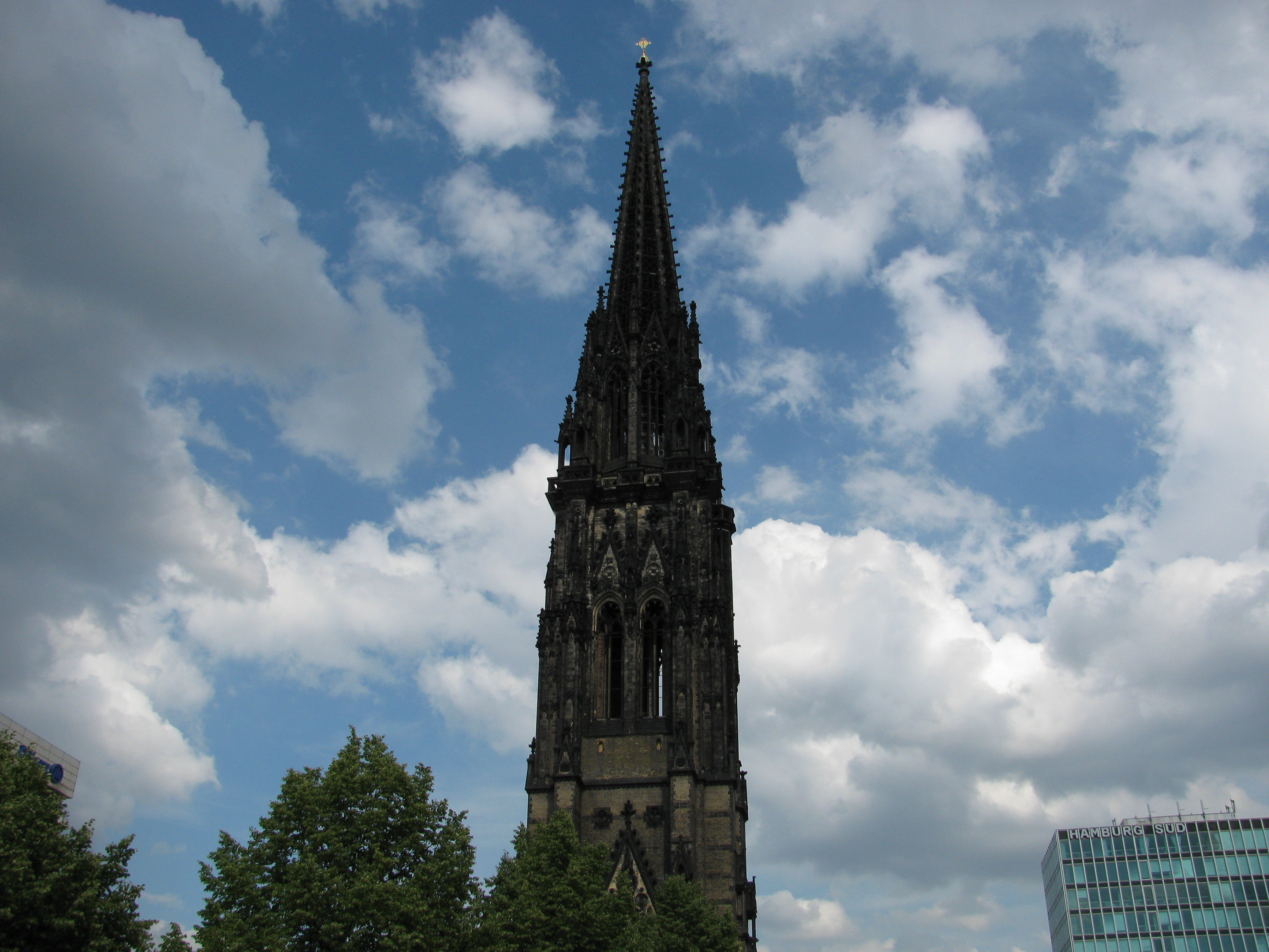 St. Nikolai Church in Hamburg, Germany. The current condition of the Nikolaikirche is the result of air raids at Hamburg during World War 2 in the year 1943.